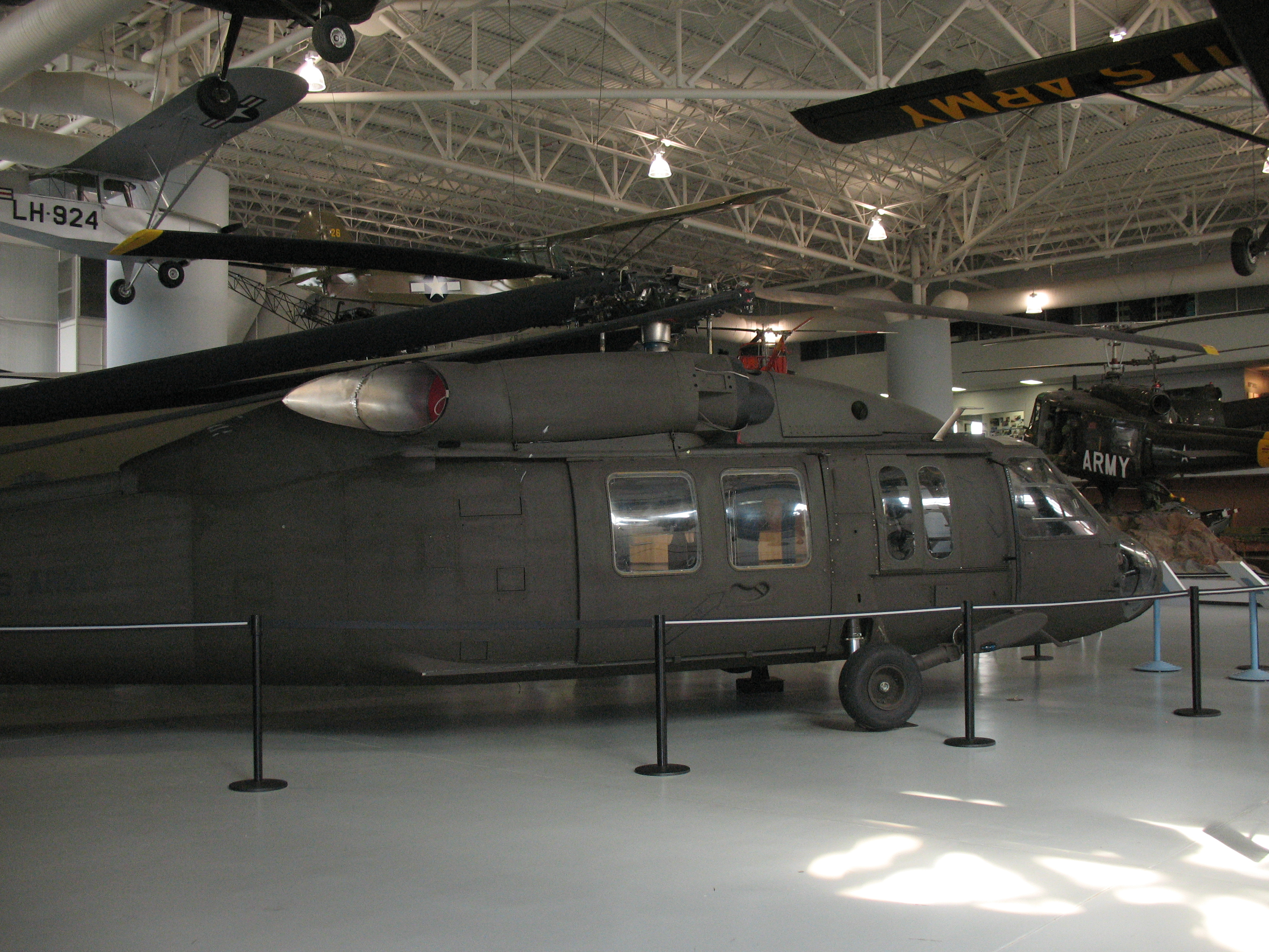 "In response to the stated requirements for a Utility Tactical Transport Aircraft System (UTTAS), the Sikorsky company and Boeing-Vertol entered a competition to produce a prototype to be selected for production. Sikorsky's Model S-70 became the YUH-60A, and Boeing-Vertol's Model 179 was designated the YUH-61A. In 1976 when the modifications, tests, and competition finished, the Army selected the Sikorsky aircraft. By 1978 the first UH-60A "Blackhawks" were delivered. "This example, one of the original YUH-60A prototypes, featured a fully articulated 4-blade main rotor, a fixed position undercarriage landing gear, and a cabin large enough for a 3-4 man crew and an 11-man infantry squad. Significant modifications as a result of early tests included raising the heights of the main rotor above the fuselage by some 15 inches and adopting an all-moving tail surface. "The Blackhawk is capable of being configured with a hover infrared suppressor sub-system, a mine delivery system, an electronic countermeasures kit, as well as being capable of loading up to 16 Hellfire missiles (with an additional 16 in the cabin for reloading). The Army Special Operations forces also have unique requirements that include additional external fuel storage, uprated engines, provisions for air-to-air refueling, a rescue hoist, and advanced avionics. "The UH-60 series has seen modifications that have allowed its usage by all branches of the armed forces. The UH-60 series has proven to be one of the most powerful and versatile aircraft in the Army inventory to date." from placard at the Army Aviation Museum